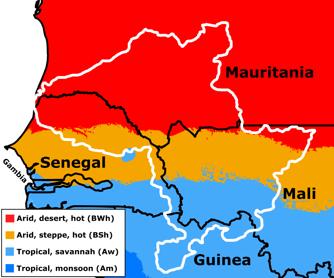 The catchment area of the Senegal river underlays with climate zones according to Koeppen - Geiger